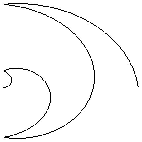 image of piecewise smooth curve